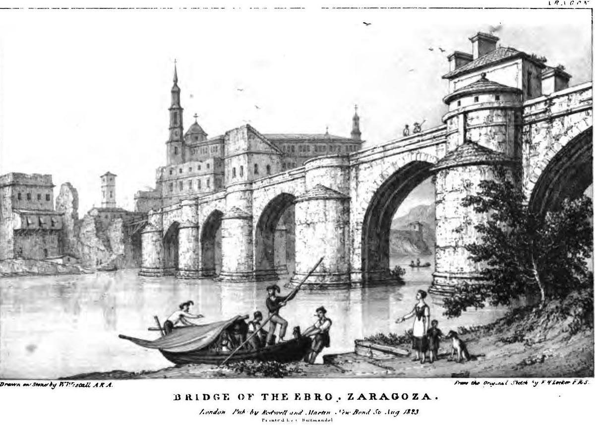 Bridge of the Ebro, Zaragoza, (after the Napoleon's French invasion) (work "Views in Spain")